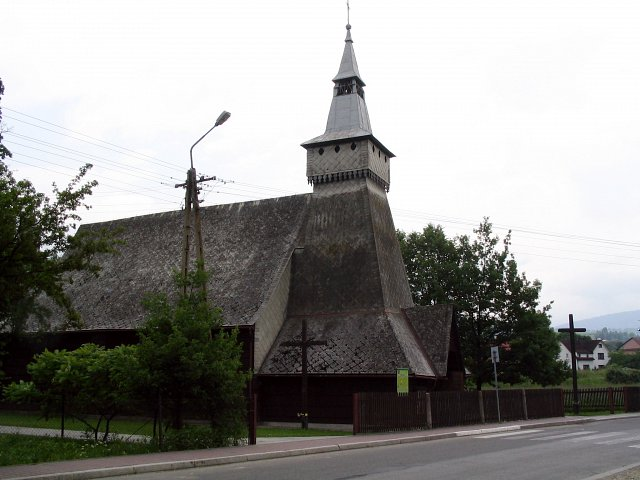 Church in Ciecina